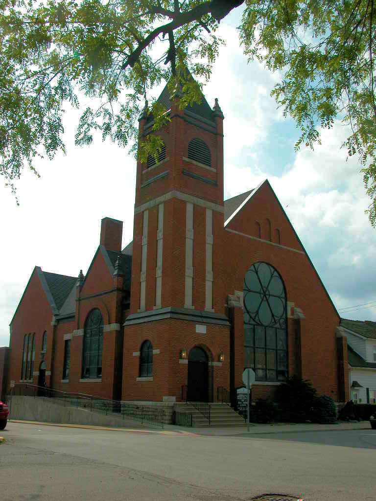 First Presbyterian Church of Hartford City, Indiana. This church is listed in the National Register of Historic Places.